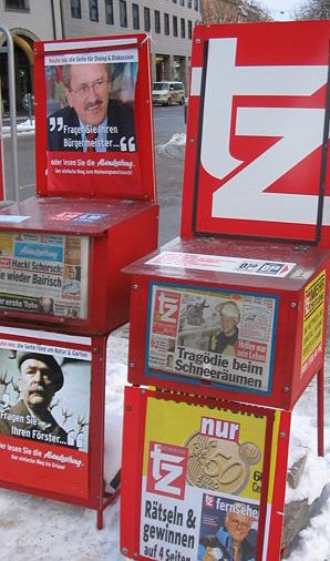 Modification of "Tz newspaper teller.jpg" Logo of tz Tageszeitung in Munich